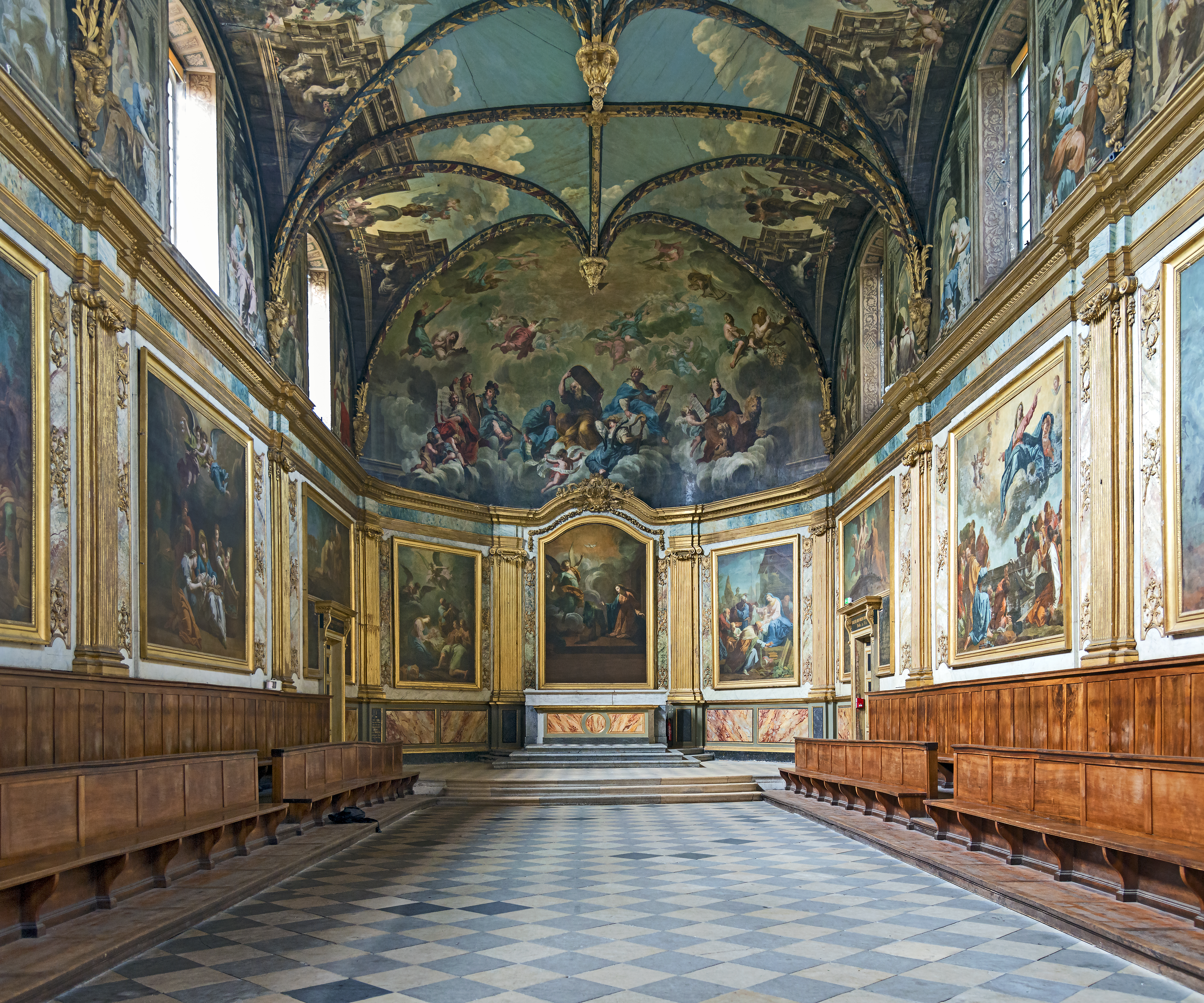 Carmelite chapel built in 1622. Facade, Perigord street in Toulouse. General view from within: the ceiling and sets by Jean-Pierre Rivalz paintings by Jean-Baptiste Despax.